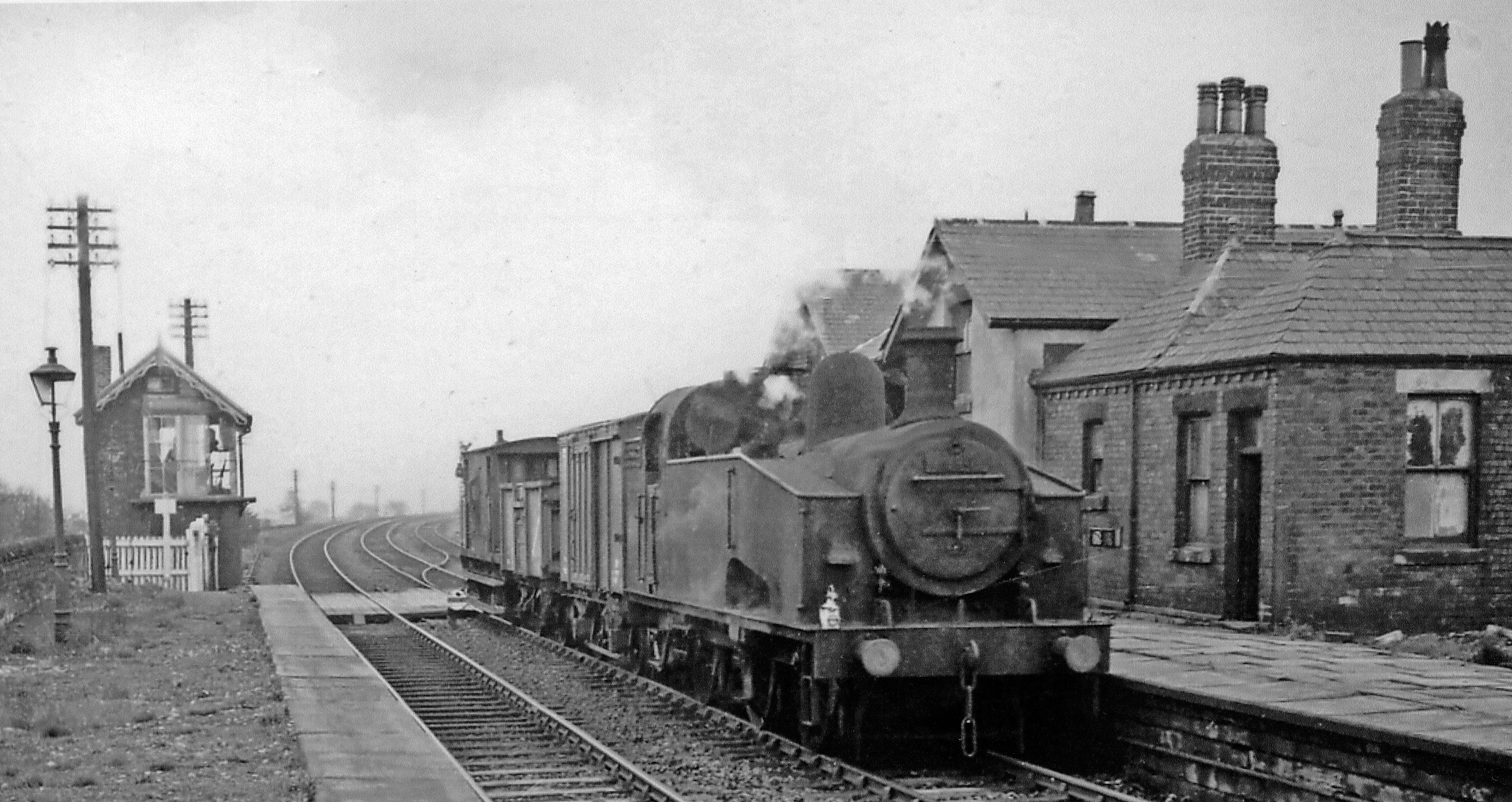 Birkenshaw & Tong Station (remains). View ESE, towards Wakefield; ex-GN Wakefield (Westgate) - Bradford (Exchange) (via Ardsley or via Dewsbury) lines. The station was closed to passengers on 5/10/53, but seems to be fairly intact, being open for goods until 7/9/64. The line via Dewsbury was closed on 15/2/65, the direct line via Morley closed in stages to 5/5/69. The short Down goods train is headed by a J50 class 0-6-0T, common in the area.